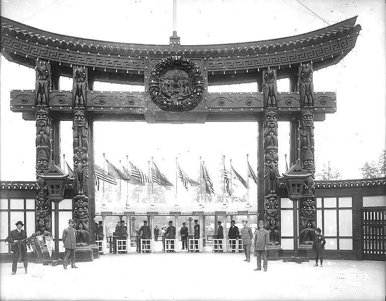 On verso of photograph: The South Gate. PH Coll 727.111 Subjects (LCSH): Gates--Washington (State)--Seattle; Alaska-Yukon-Pacific Exposition (1909 : Seattle, Wash.); Exhibitions--Washington (State)--Seattle